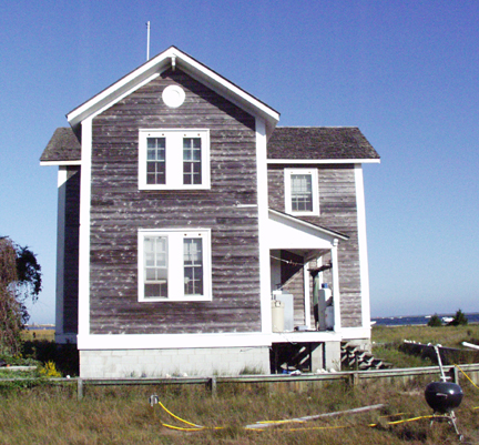 Keeper's Dwelling, Cape Lookout Village Historic District, Cape Lookout Nqational Seashore, North Carolina, USA